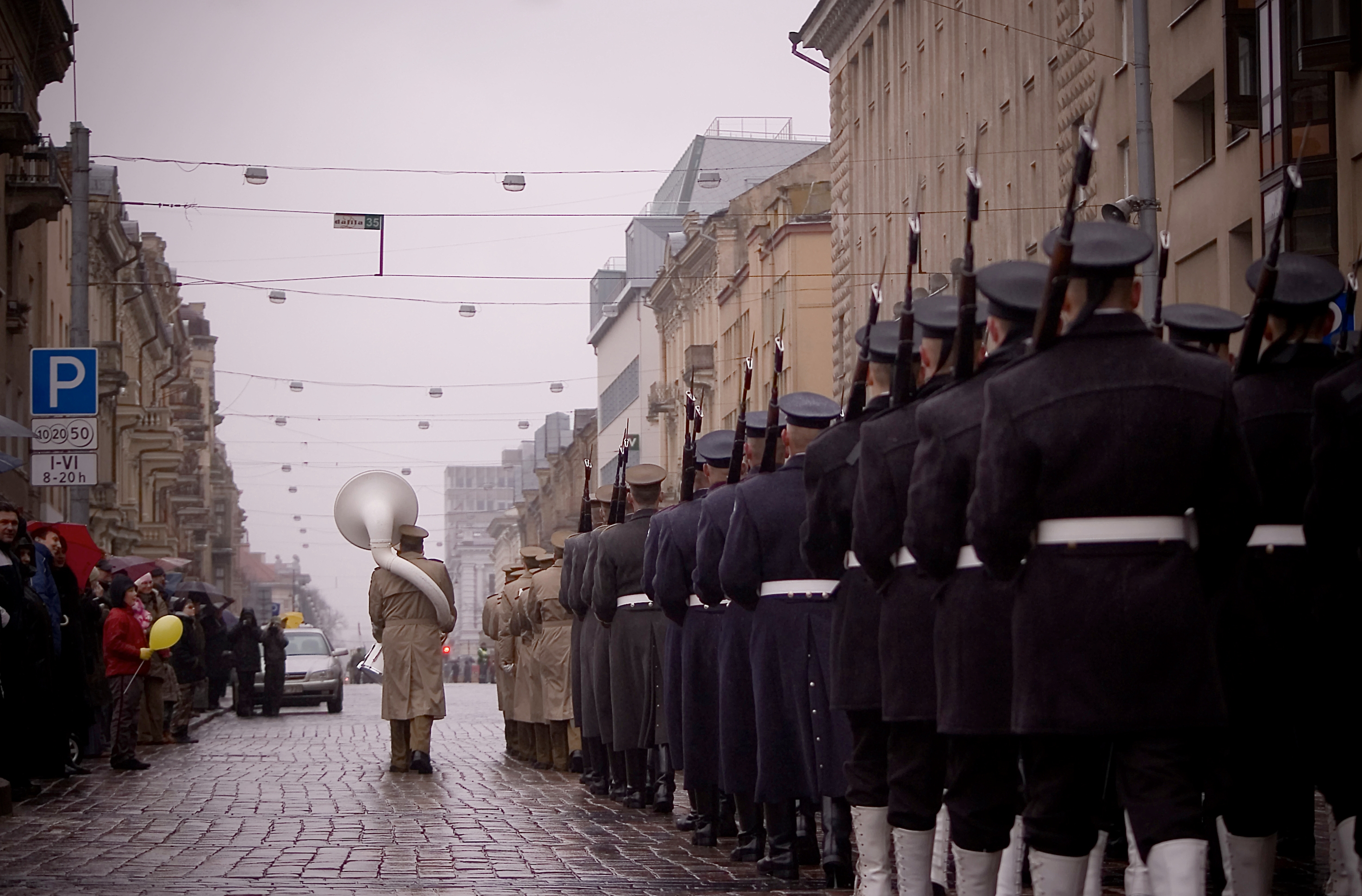 March 11 Parade in Lithuania